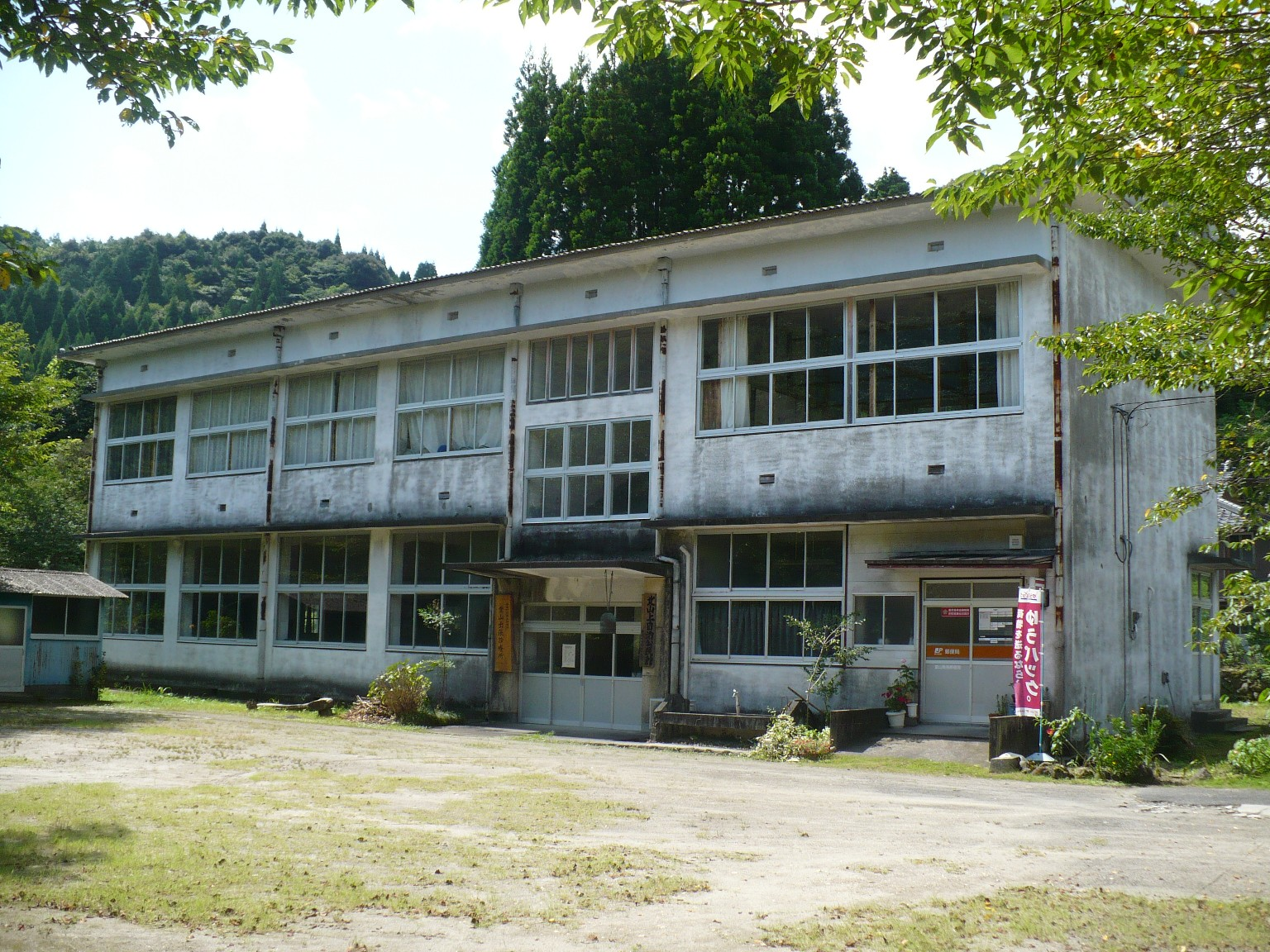 Ruin of Douyama elementary school, Aira, Kagoshima, Japan. The site is now used for community center and post station.